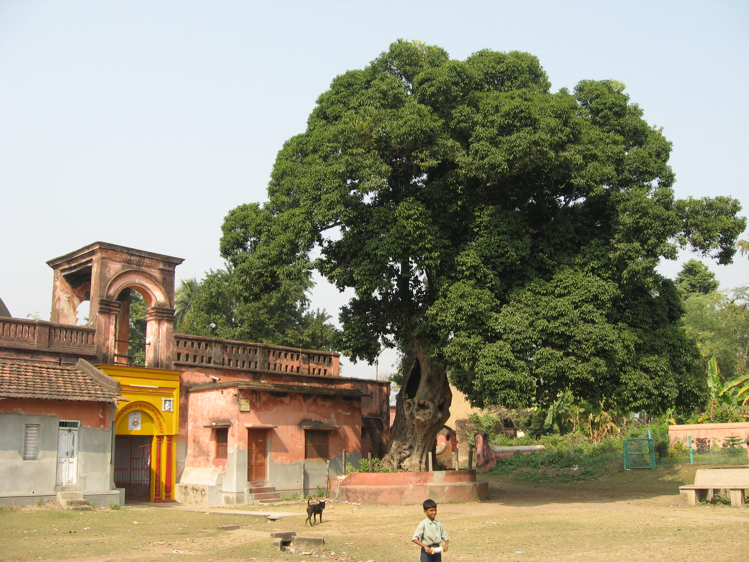 Famous Bakul Tree at Antpur Hooghly Westbengal India.